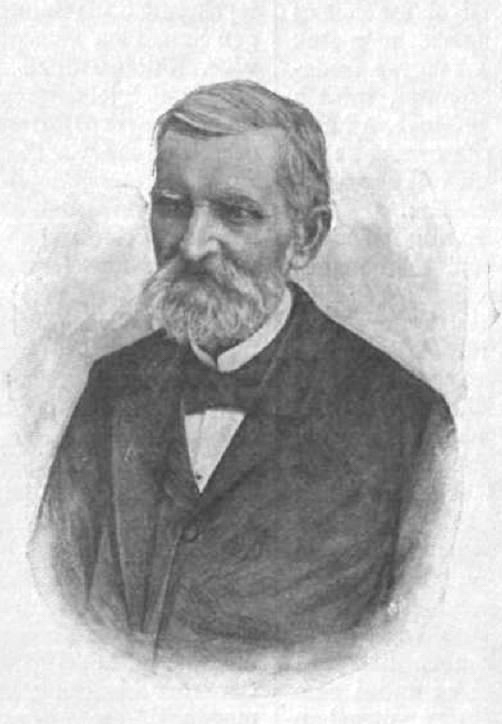 Albert Pálffi